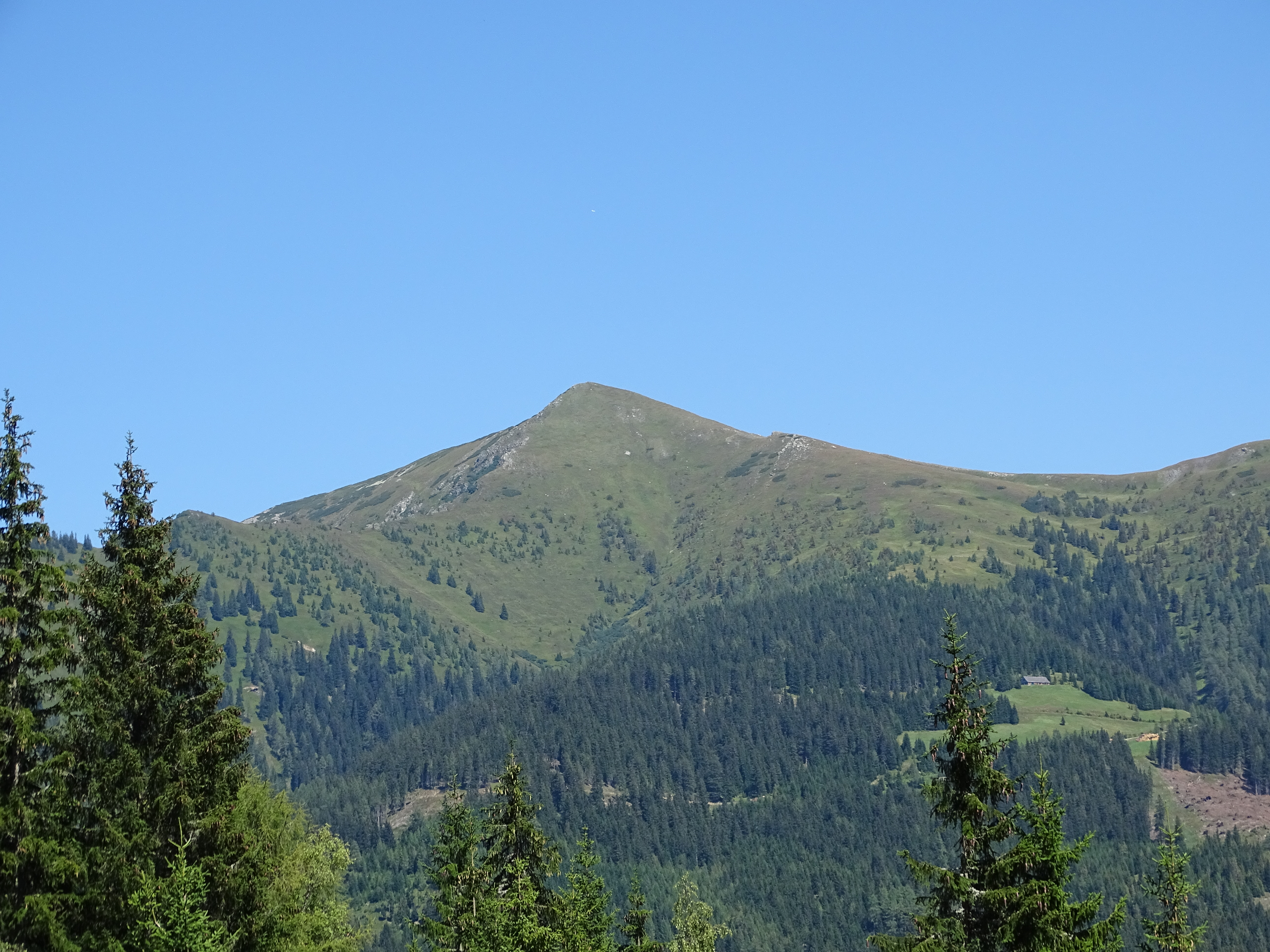 Die Hochgrößen an der Gemeindegrenze von Aigen im Ennstal und Rottenmann.